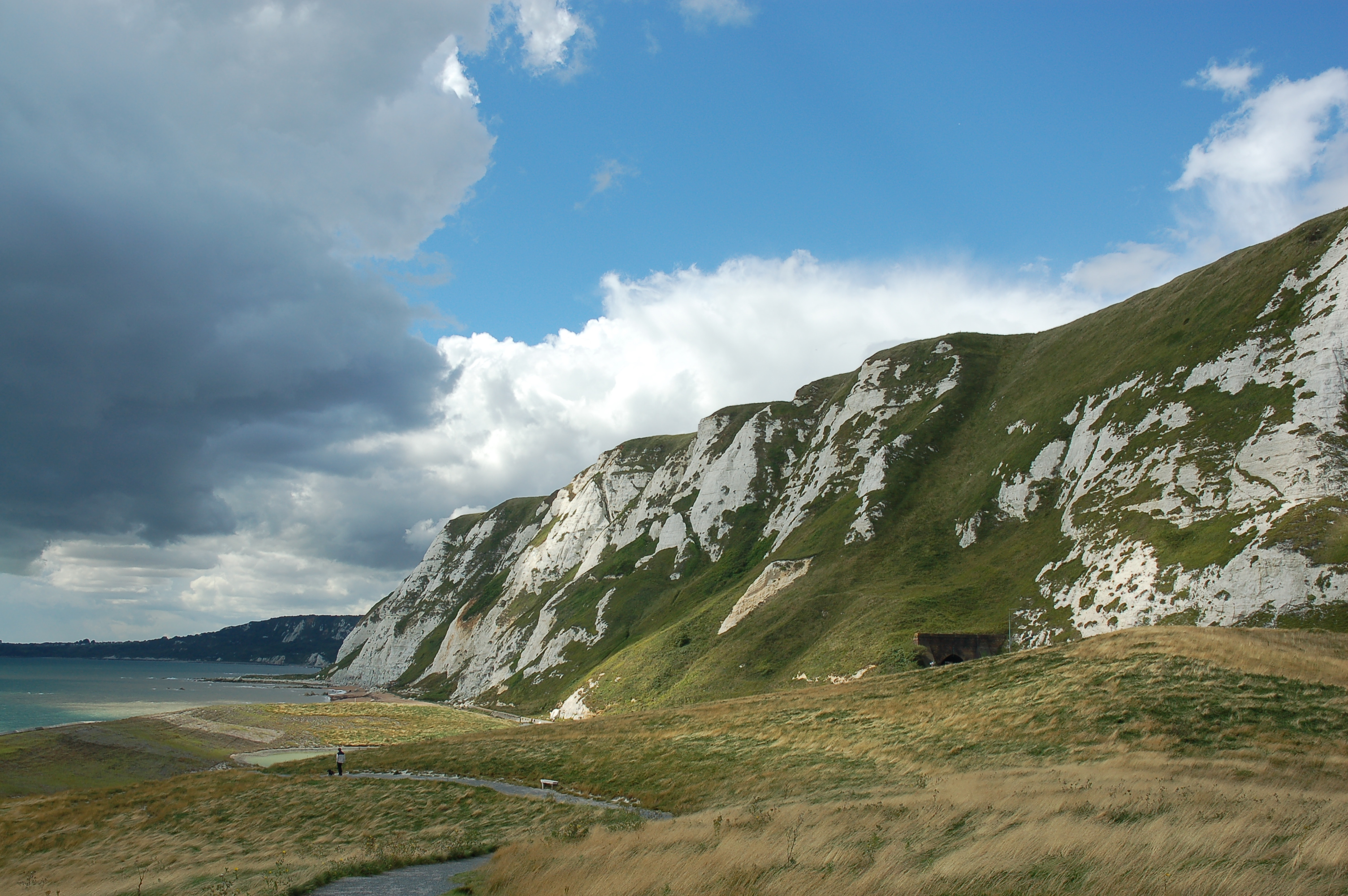 Description: Samphire Hoe Date: uploaded 22nd April 2007 (image taken 25th August 2005)